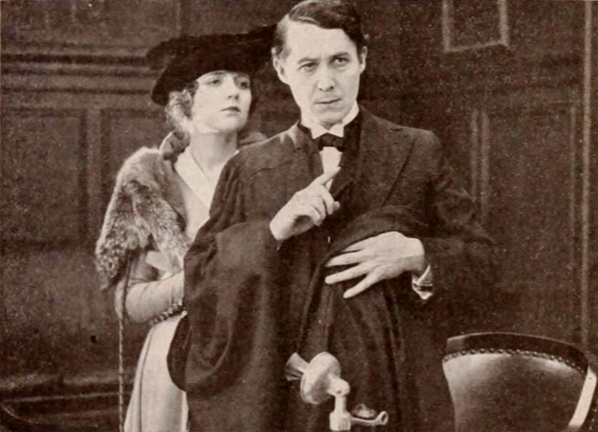 Still from the American crime drama His Robe of Honor (1918) with Lois Wilson and Henry B. Walthall, on page 27 of the February 2, 1918 Exhibitors Herald.